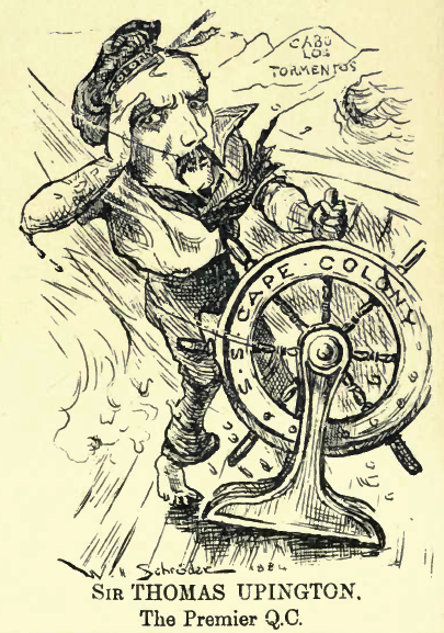 Cape Prime Minister Thomas Upington. 1885.